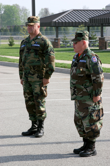 GRISSOM AIR RESERVE BASE, Ind. -- Senior Master Sgt. Les Hart, a moral leadership officer and drill instructor from the 202nd Civil Air Patrol Squadron, Bedford County, Kentucky, orders attendees to attention at the Annual Chaplain Staff College prior to their inspection by Chaplain (Lt. Col.) Larry Franklin, the Deputy Region Chaplain for the Great Lakes Region Civil Air Patrol. The chaplain college provides instruction to Civil Air Patrol chaplains in subject matters ranging from military customs and courtesies to radio equipment usage. The Great Lakes Civil Air Patrol Chaplain Service located at Grissom conducts, what is considered, one of the best Civil Air Patrol staff colleges in the Nation.(U.S. Air Force photo/Senior Airman Omar Delacruz)